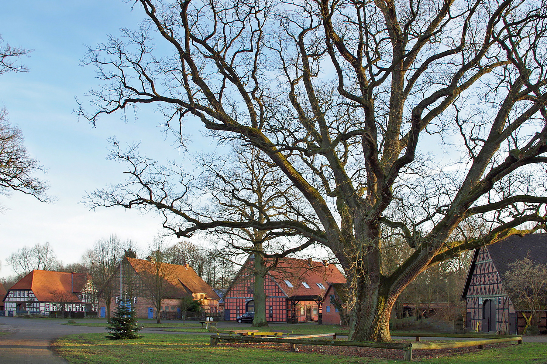 Center of the village Küsten (district Lüchow-Dannenberg, northern Germany); looking towards the south-east.